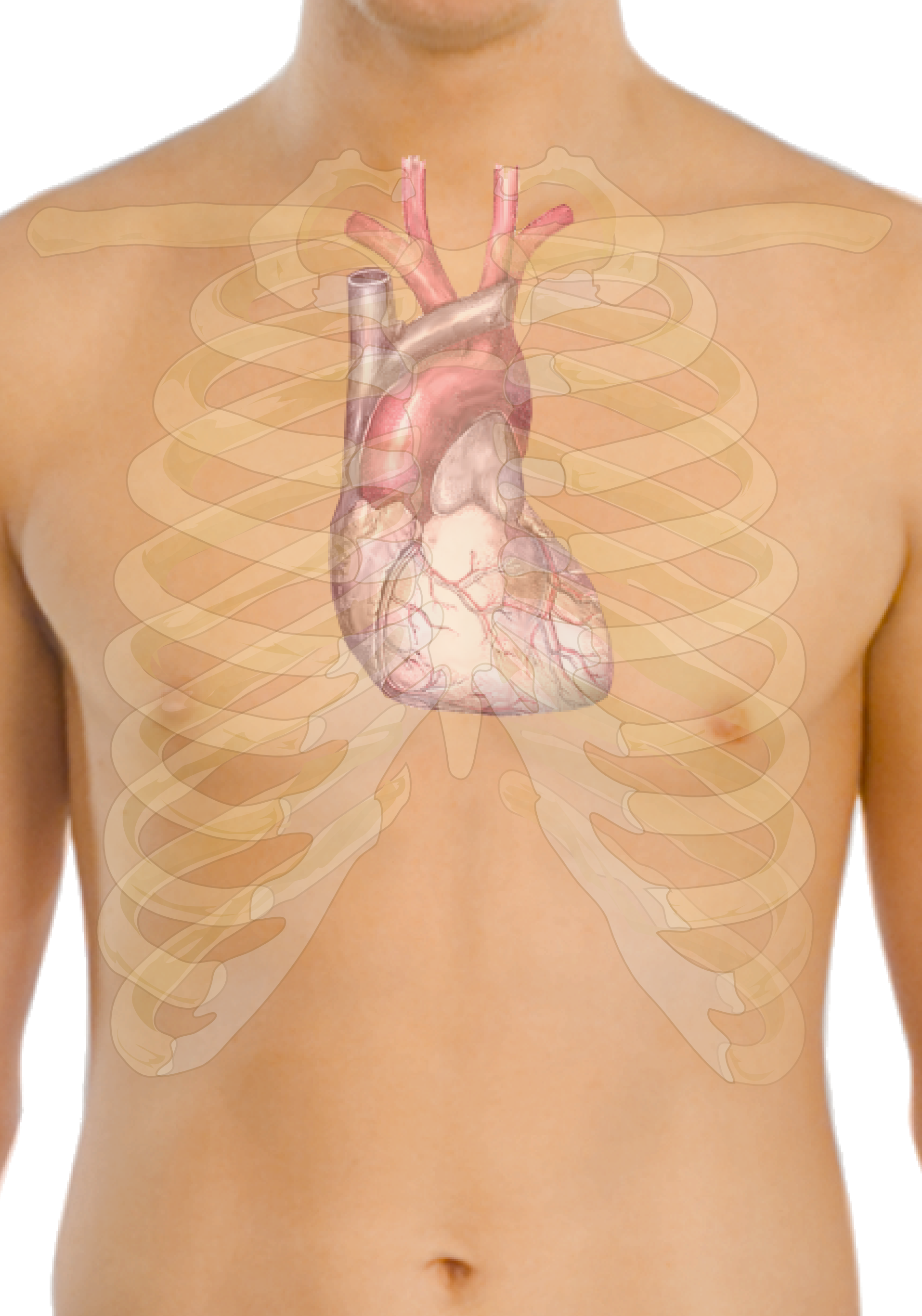 Surface anatomy of the heart. The heart is demarcated by: A point 9 cm to the left of the midsternal line (apex of the heart) The seventh right sternocostal articulation The upper border of the third right costal cartilage 1 cm from the right sternal line The lower border of the second left costal cartilage 2.5 cm from the left lateral sternal line. References: Gray's Anatomy of the Human Body - 6. Surface Markings of the Thorax Model: Mikael Häggström. To discuss image, please see Template talk:Häggström diagrams